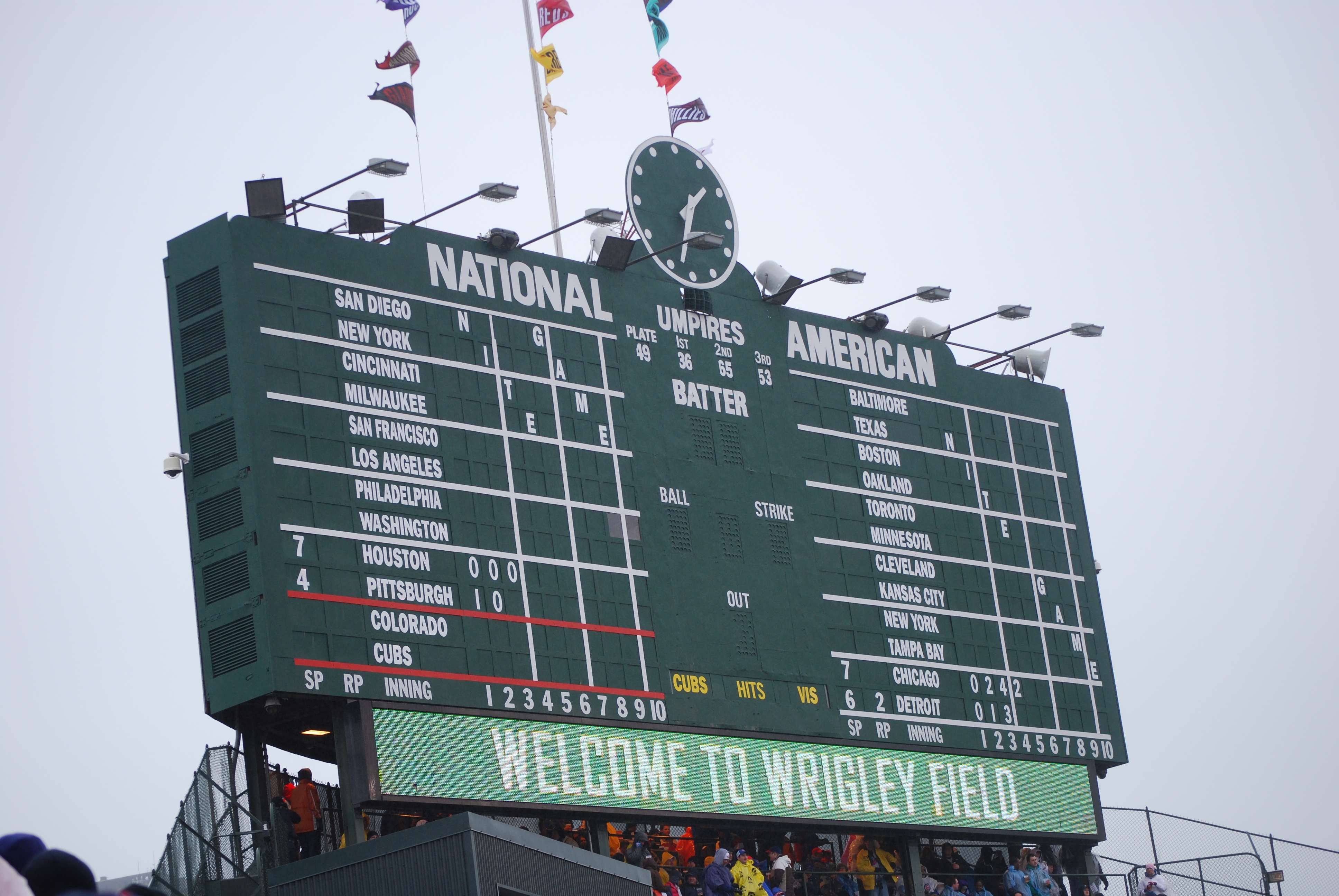 Description Wrigley Field's famous manual scoreboard in center field. DateSourceI created this work entirely by myself.AuthorScottRAnselmo (talk) 12:15, 4 May 2009 . . ScottRAnselmo . . 3,872×2,592 (3.76 MB) Wrigley Field's famous manual scoreboard in center field.